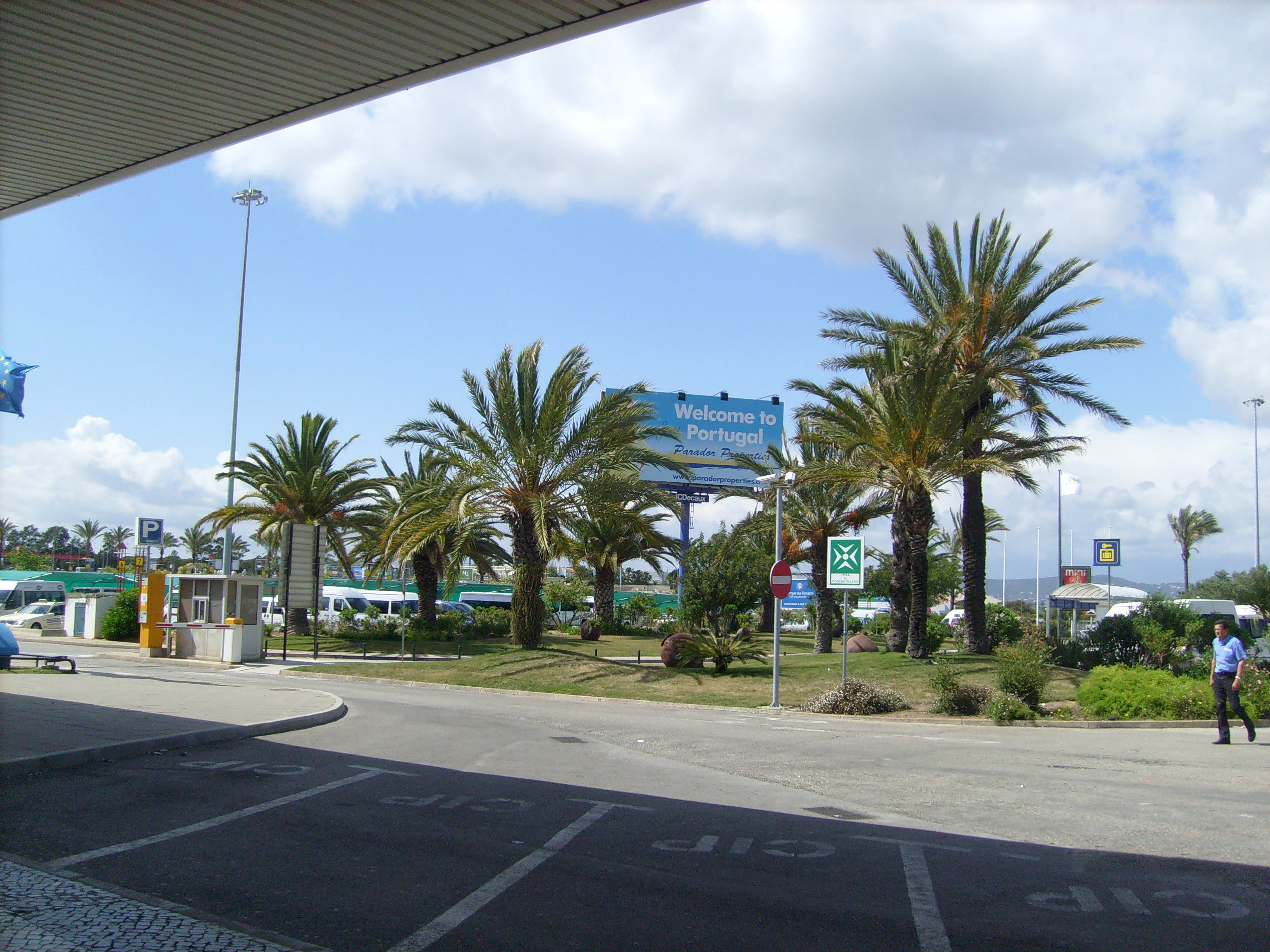 The forecourt of the arrival hall at Faro Airport